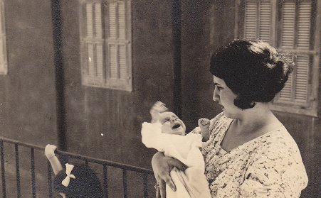 Ara Berkian and his mother Taguhi Sarafian